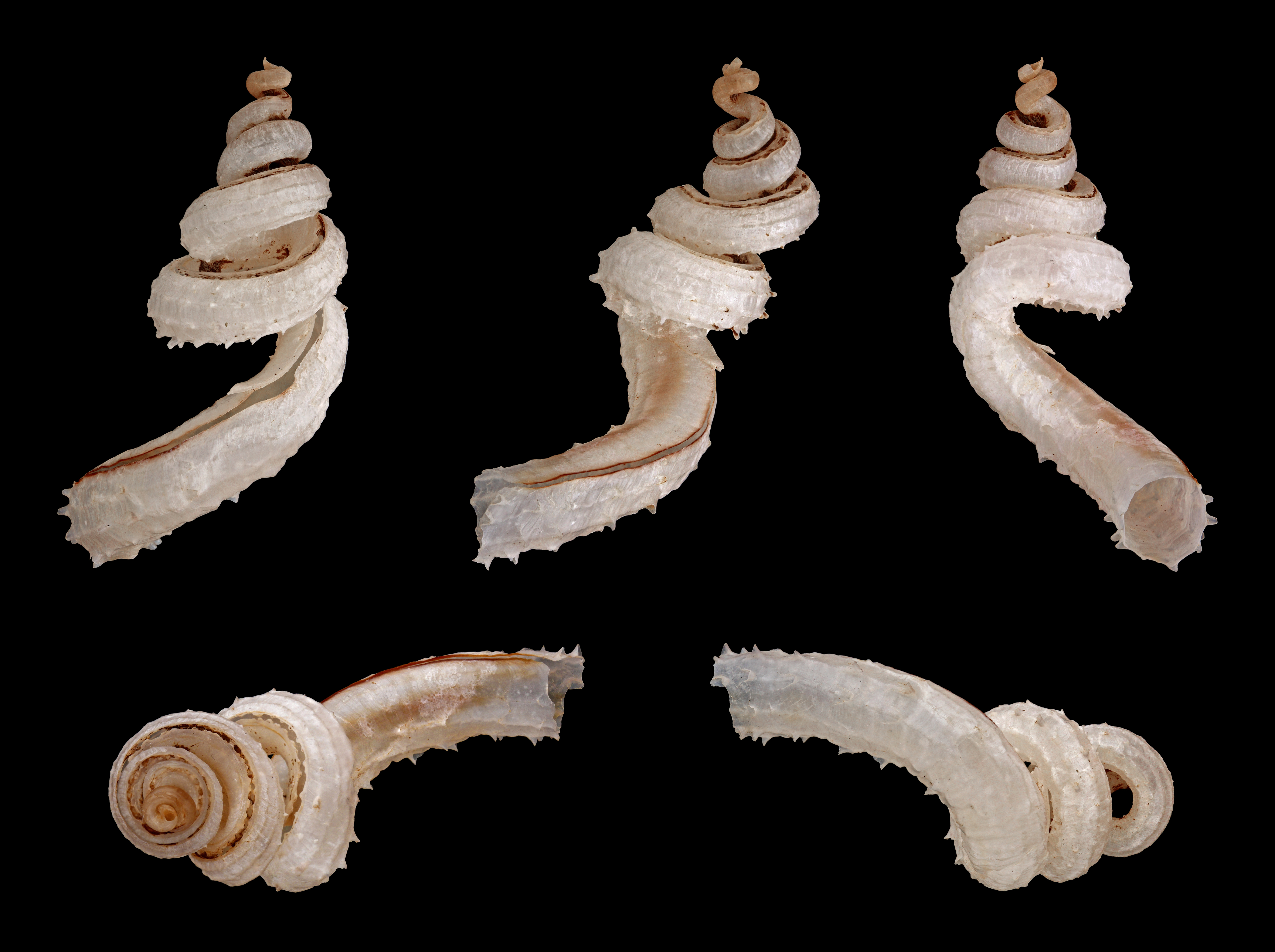 Squamous Worm Snail; Length 4.1 cm; Originating from the Philippines; Shell of own collection, therefore not geocoded.